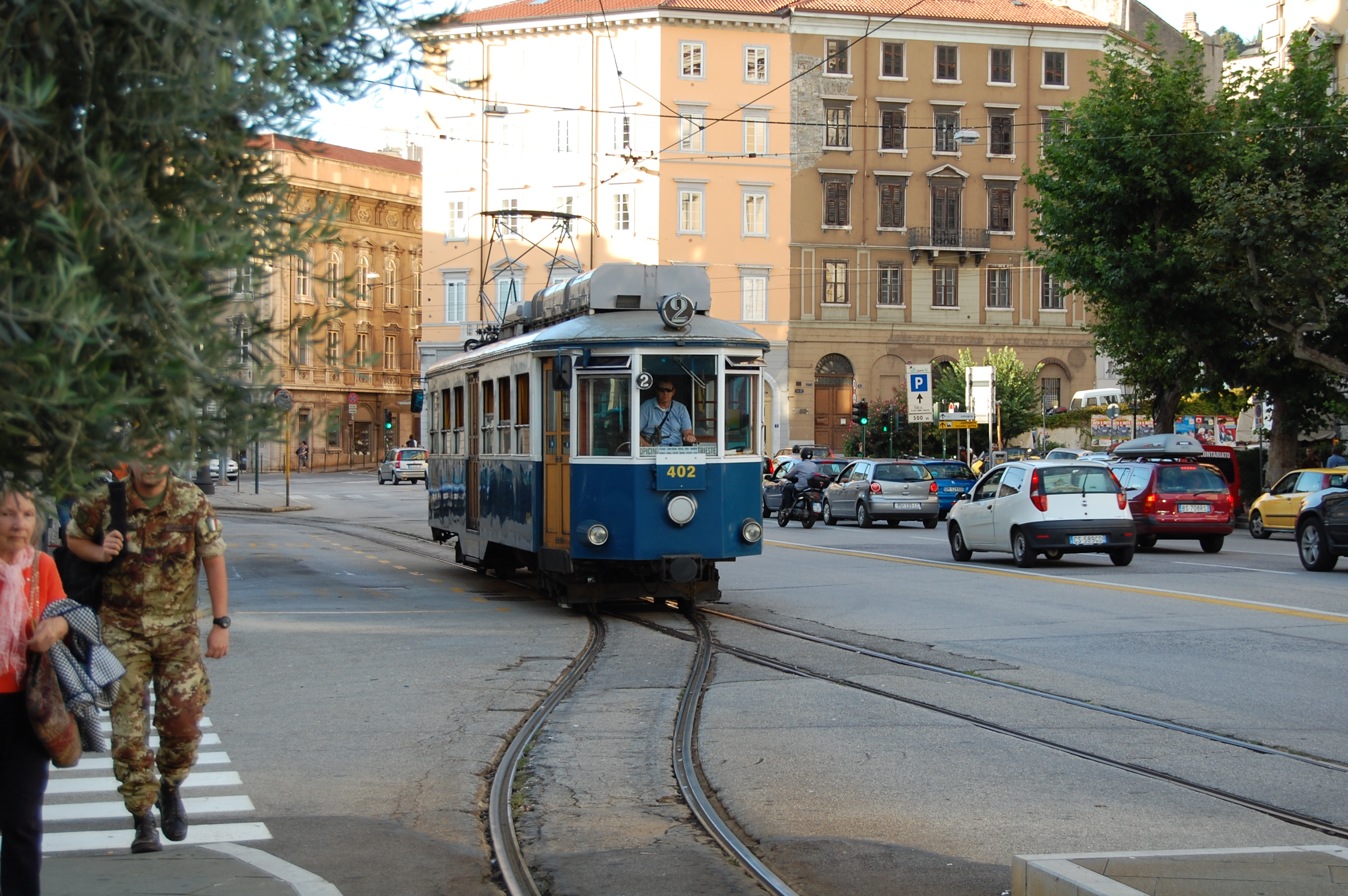 Photo of Tram di Opicina in Trieste